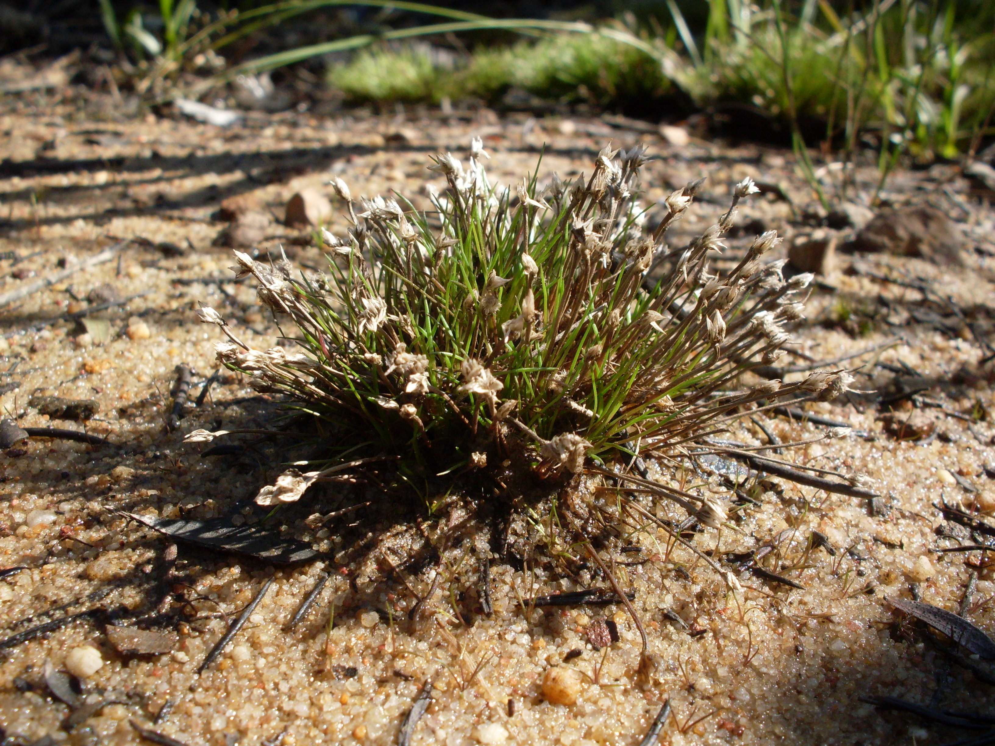 Centrolepis fascicularis. Dharawal Nature Reserve, NSW Australia, May 2009.